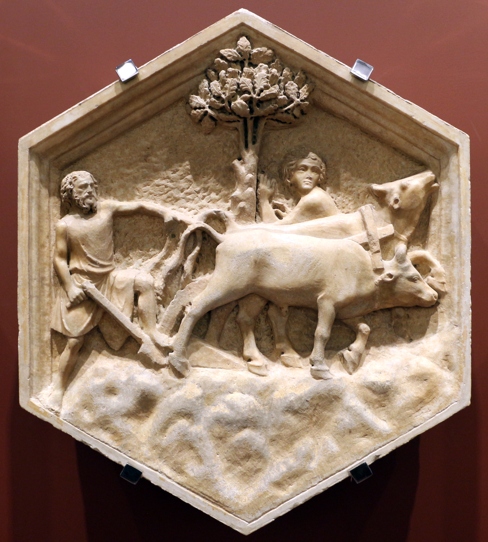 Reliefs of the Giotto's Belltower